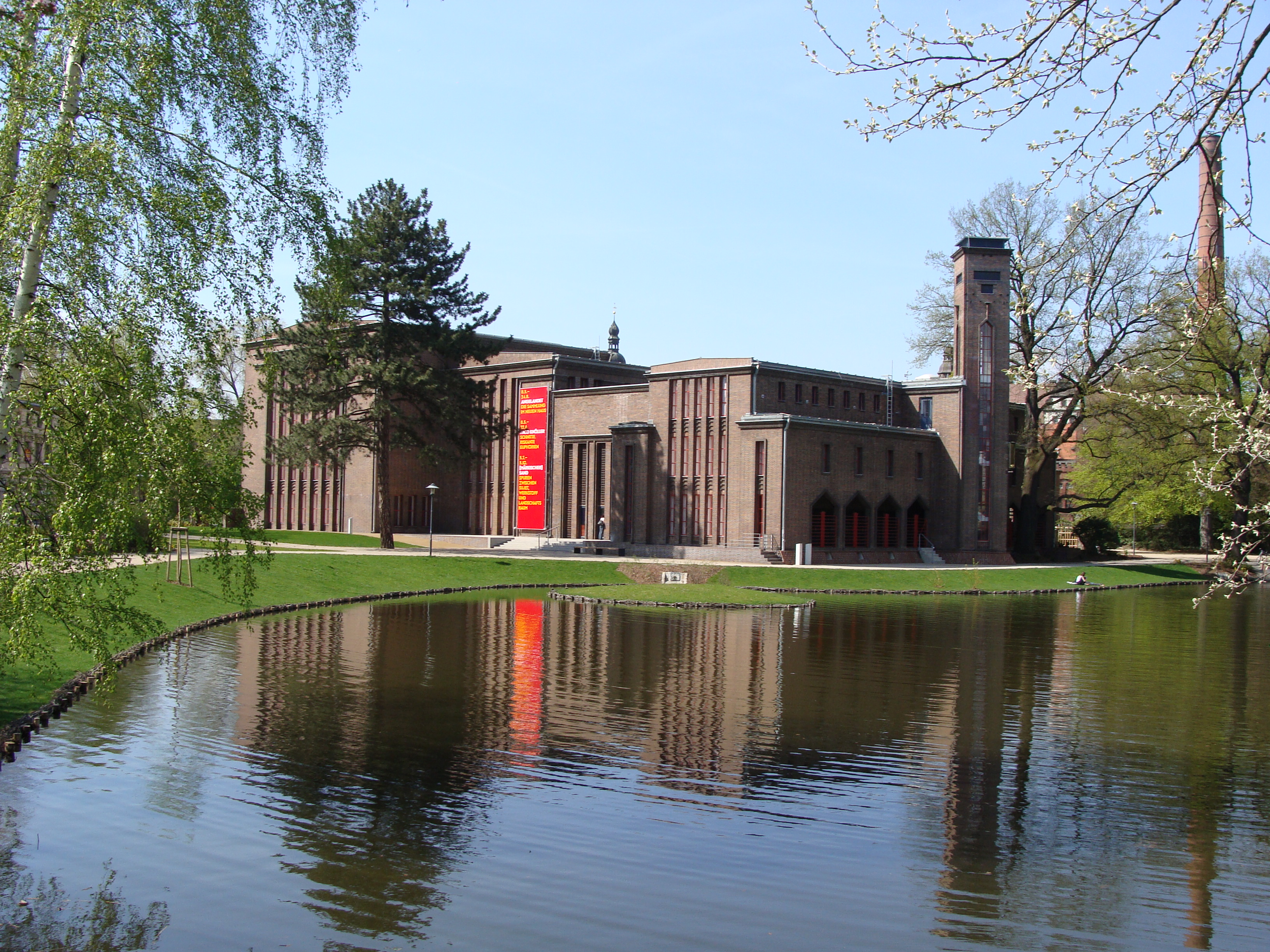 museum of art "Dieselkraftwerk Cottbus"; former diesel power station in Cottbus, Germany